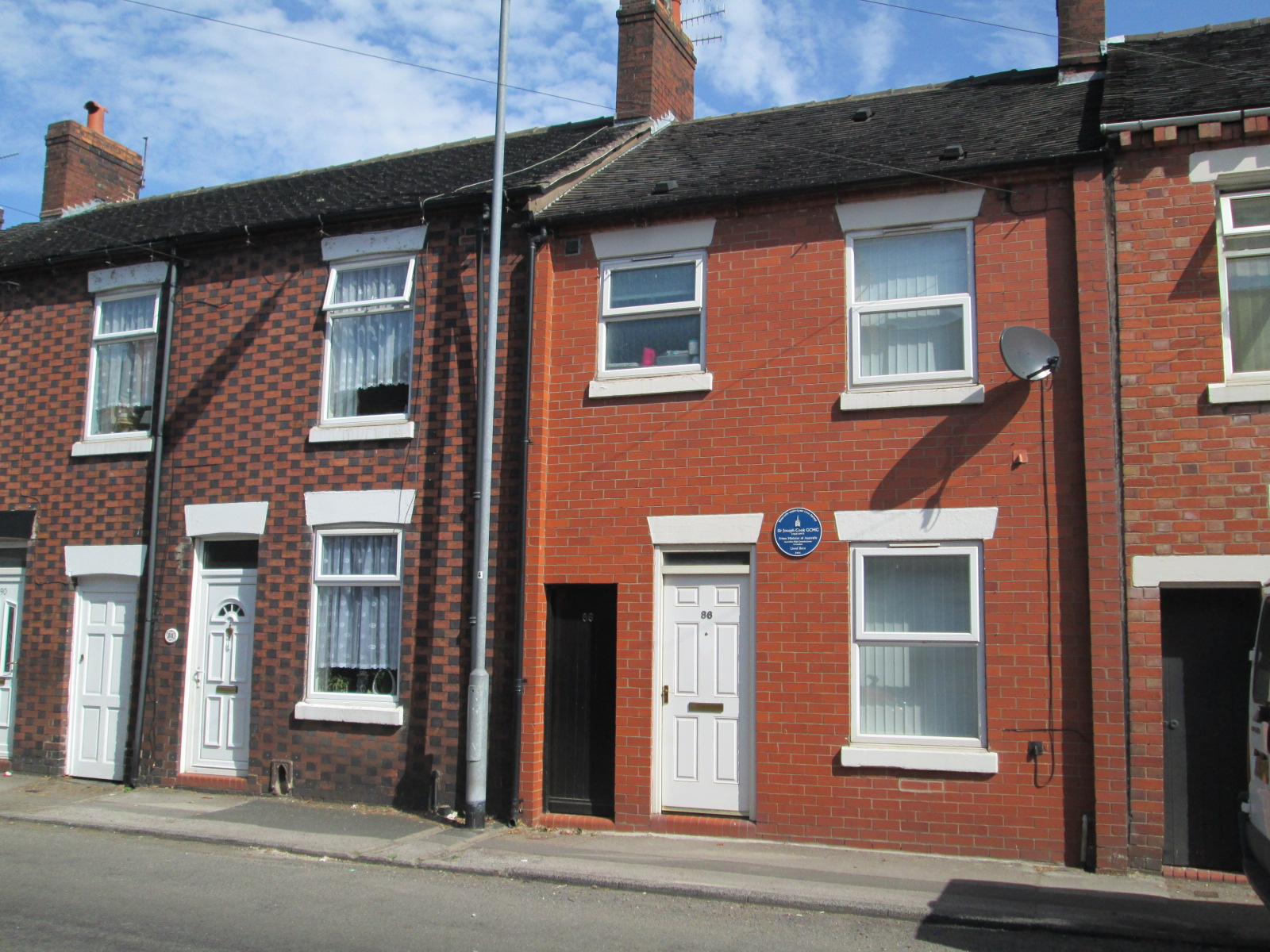 House on Newcastle Street, Silverdale, Staffordshire. The blue plaque shows that Joseph Cook, Prime Minister of Australia, lived here.